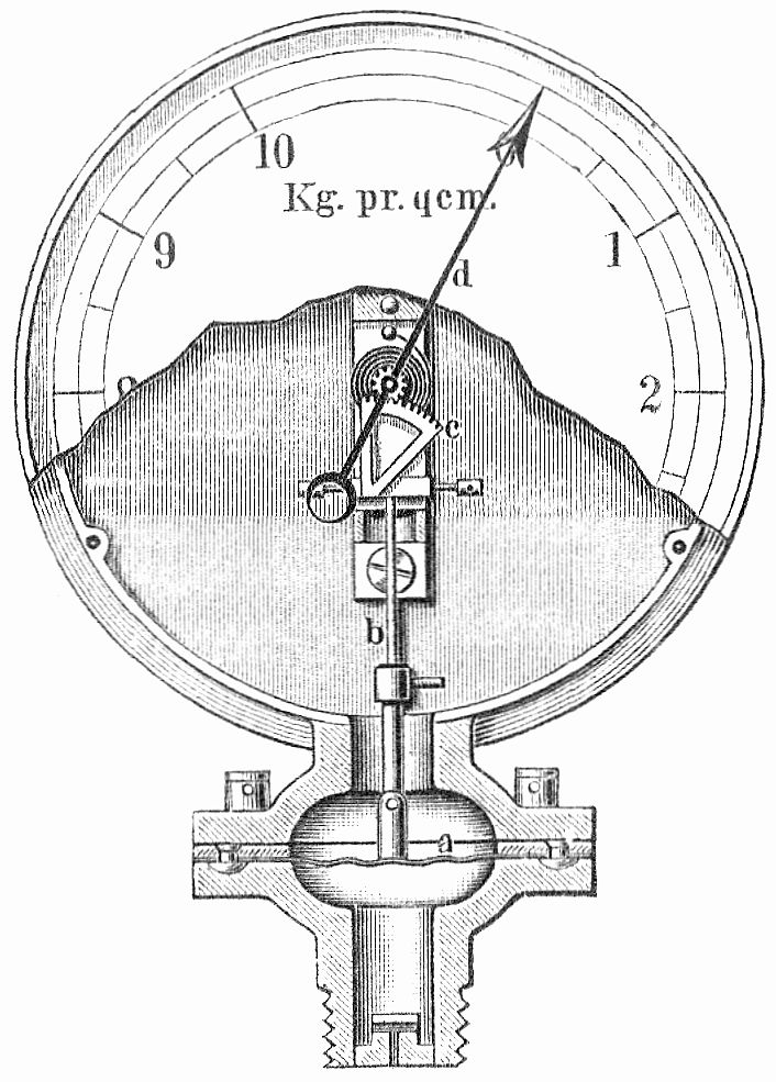 Diaphragm Pressure Gauge